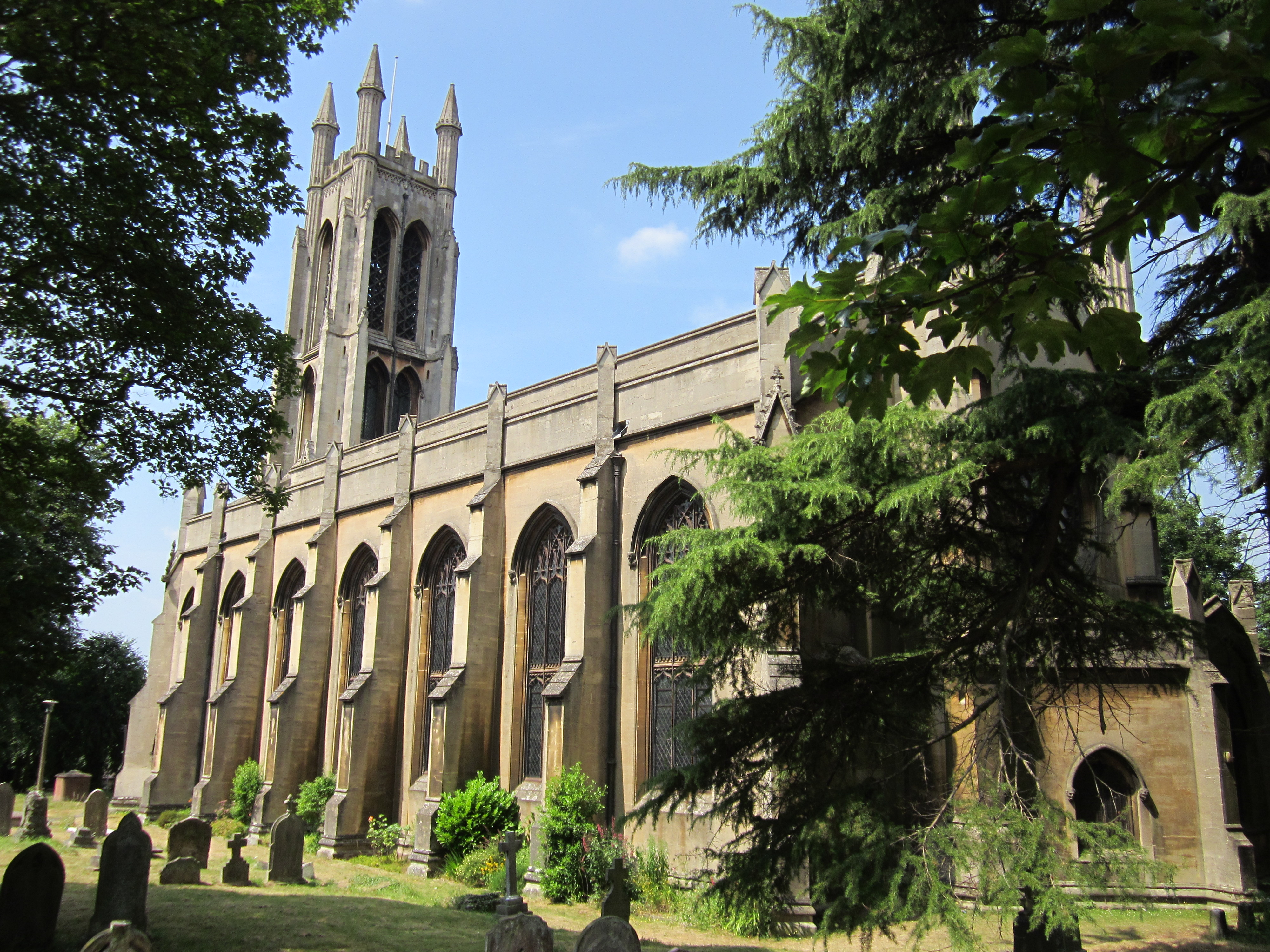 The south side of St George's parish church, Kidderminster, Worcestershire, seen from the east